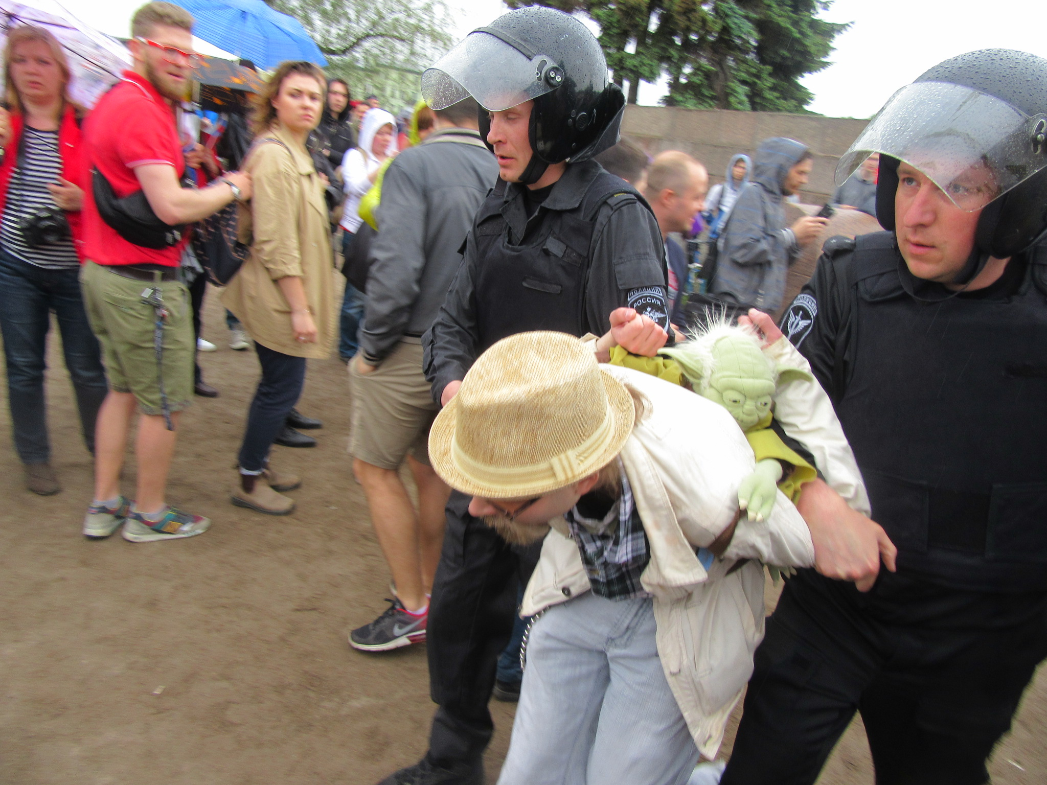 2017-06-12 Anti-corruption rally in St. Petersburg, Russia. Campus Martii. Arrest.